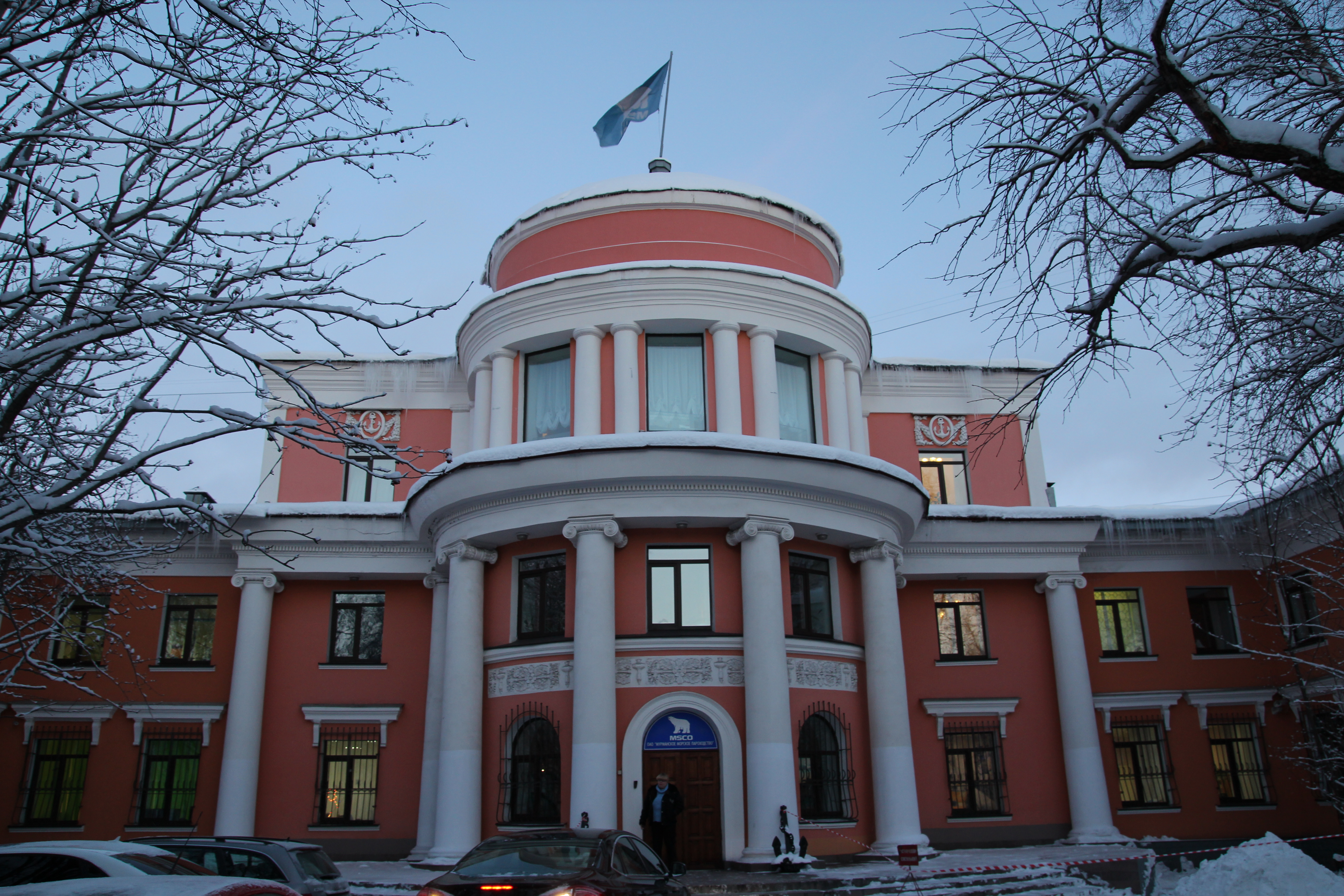 The building of the Murmansk Shipping Company